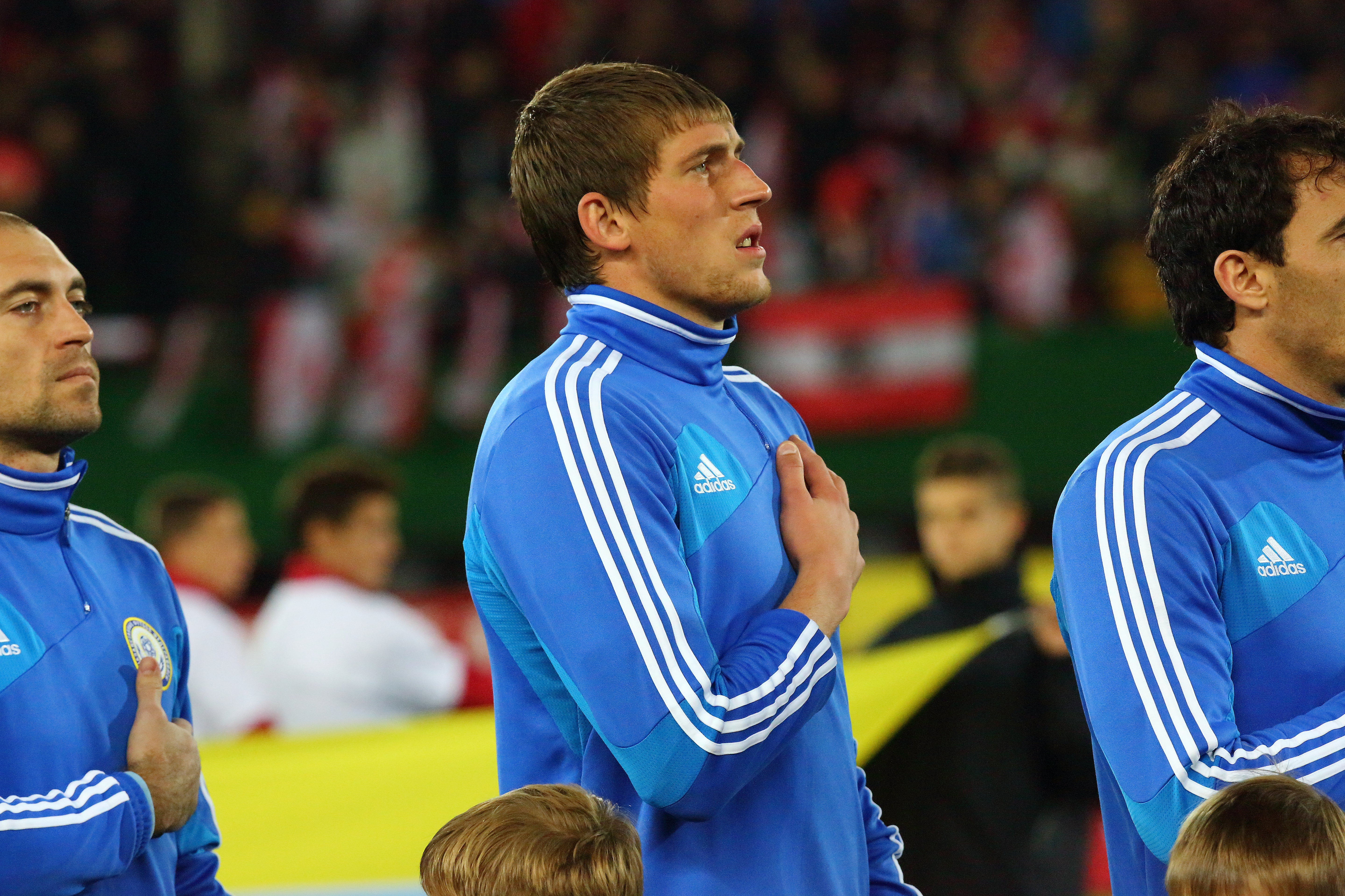 Sergey Gridin singing the Anthem of Kazakhstan before the Match against Austria on October 16th 2012